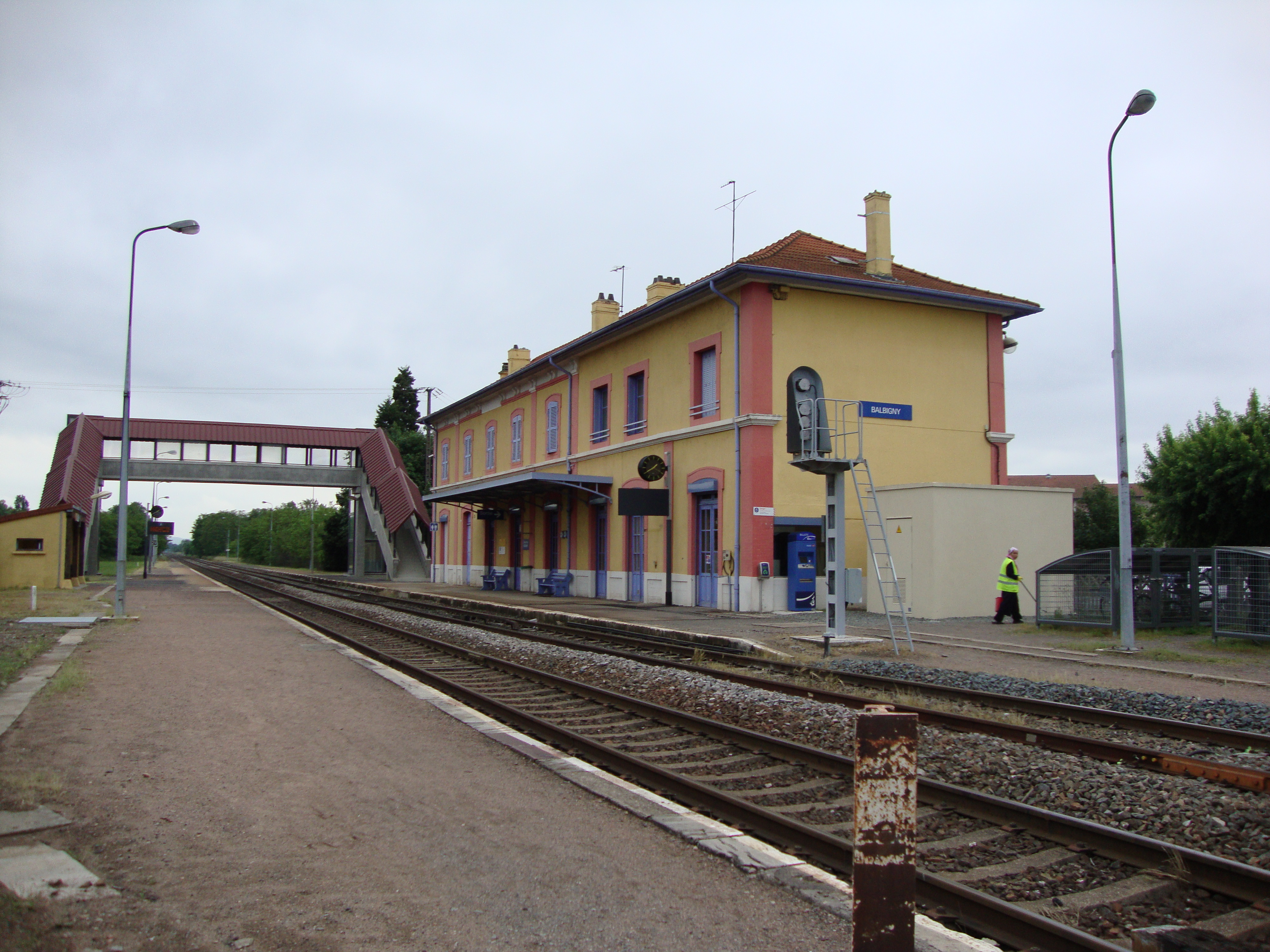 Balbigny (Loire, Fr) train station